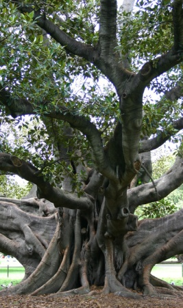 pohon gerat. lambang desa juga gerat.